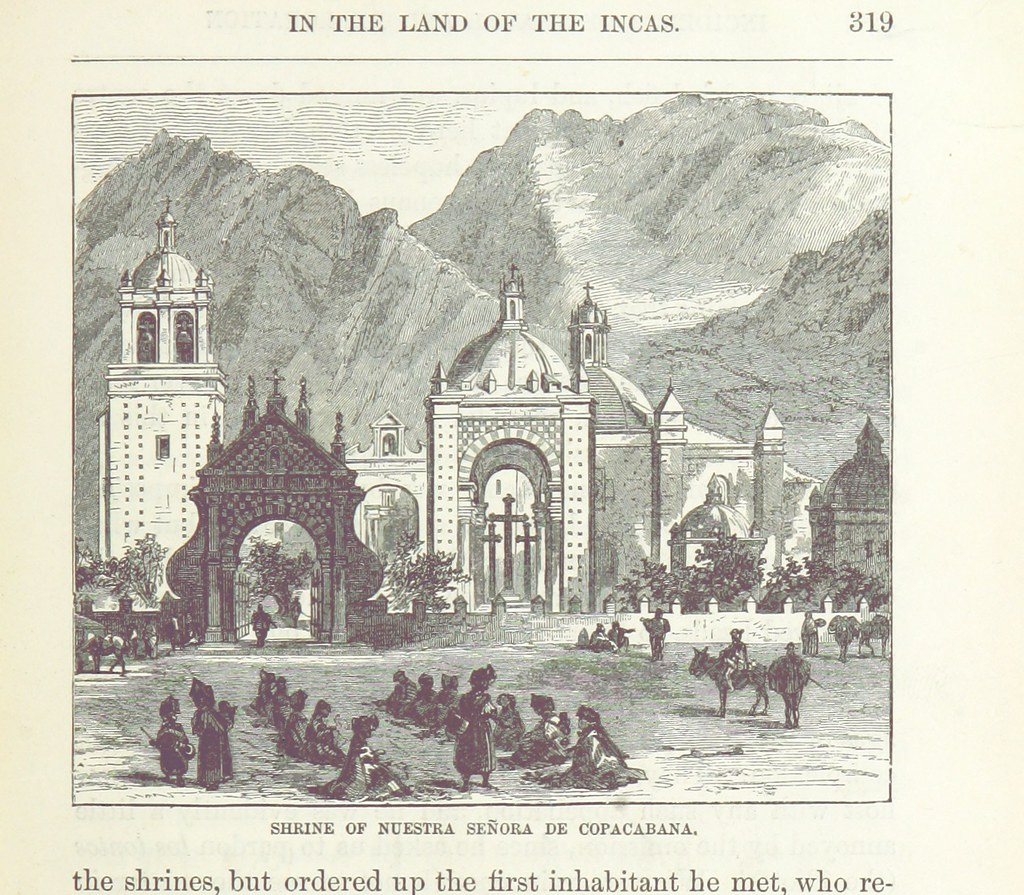 Drawing made by Ephraim George Squier published in his book Peru; Incidents of Travel and Exploration in the Land of the Incas (1877).